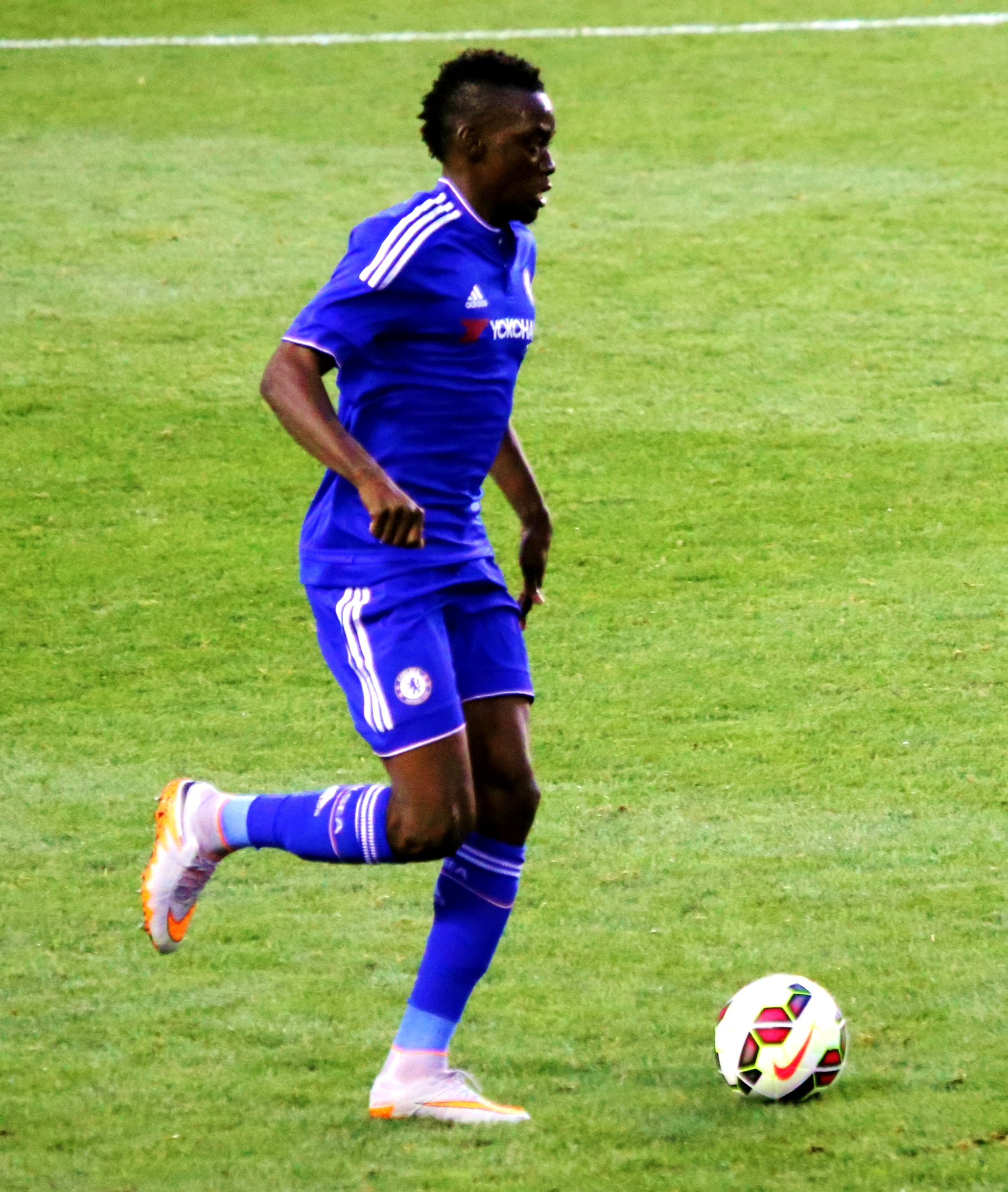 Bertrand Traoré